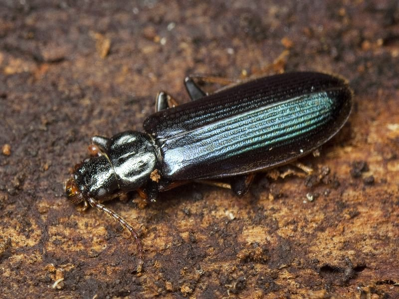 Pytho depressus